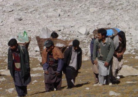 Glacier grafting, glacier growing, artificial glacier, breplanting